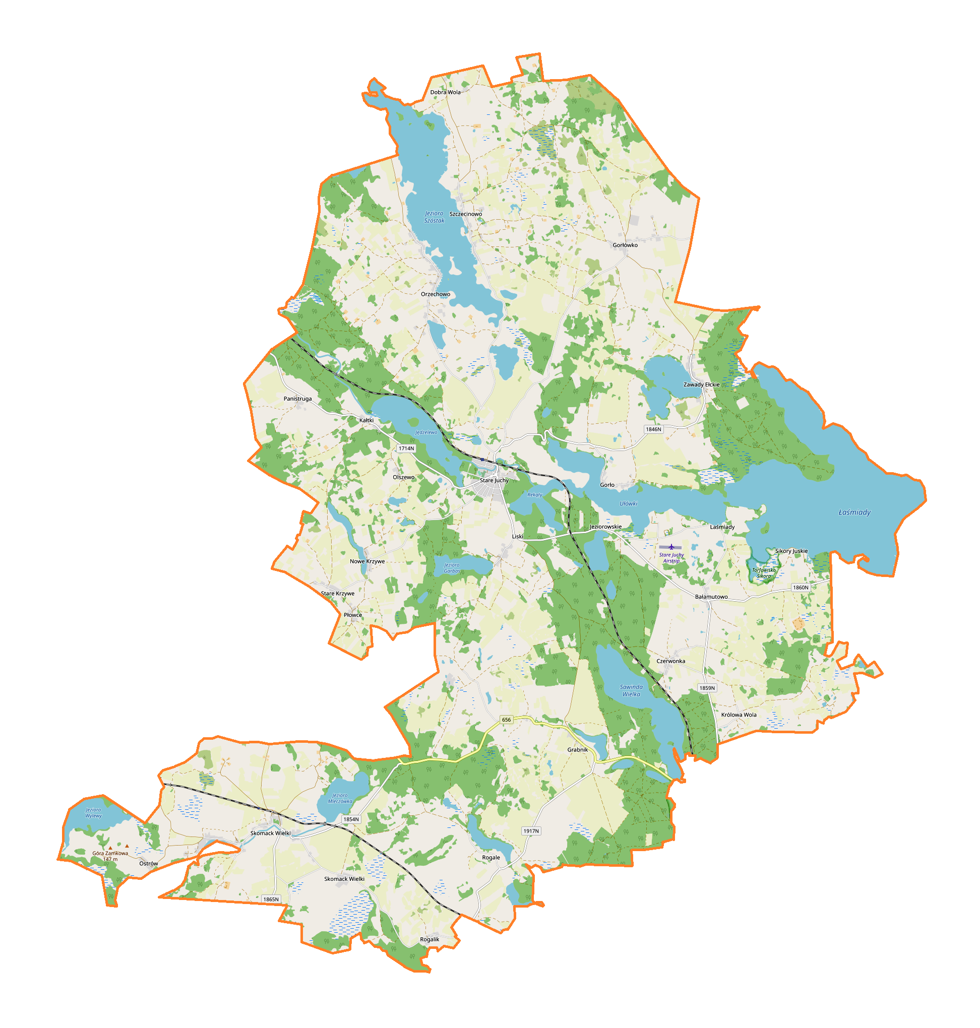 Location map